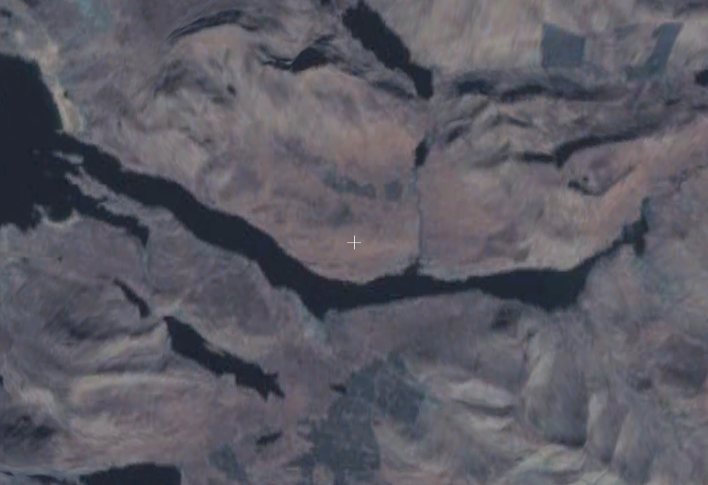 Satellite image of Killary Harbour, Ireland. Screenshot from NASA's World Wind.